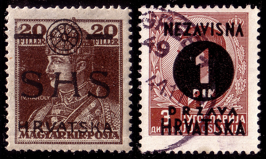 Postage stamps of Croatia overprints from 1918 and 1941